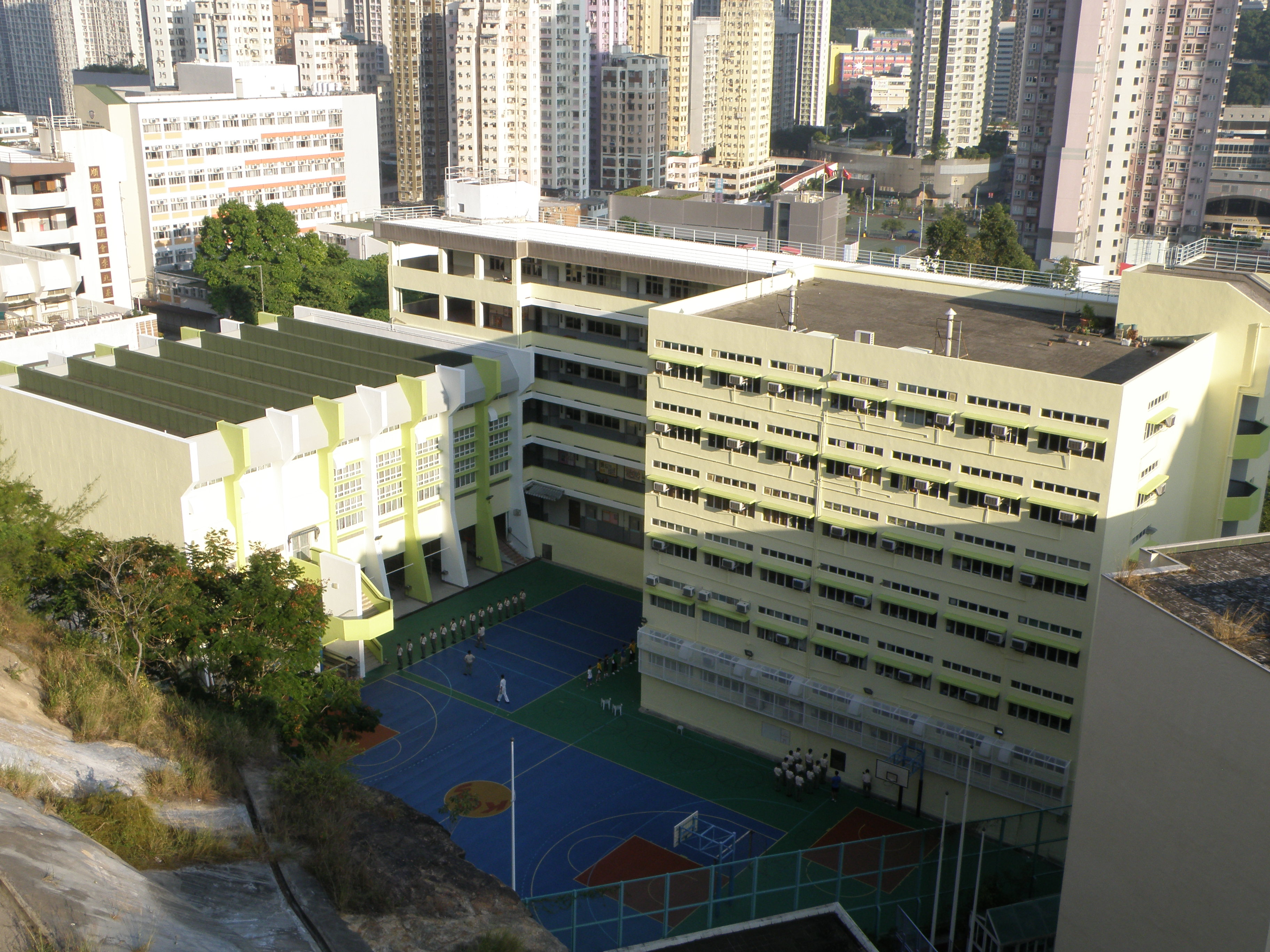 Lok Sin Tong Ku Chiu Man Secondary School in Kwai Chung, Hong Kong.